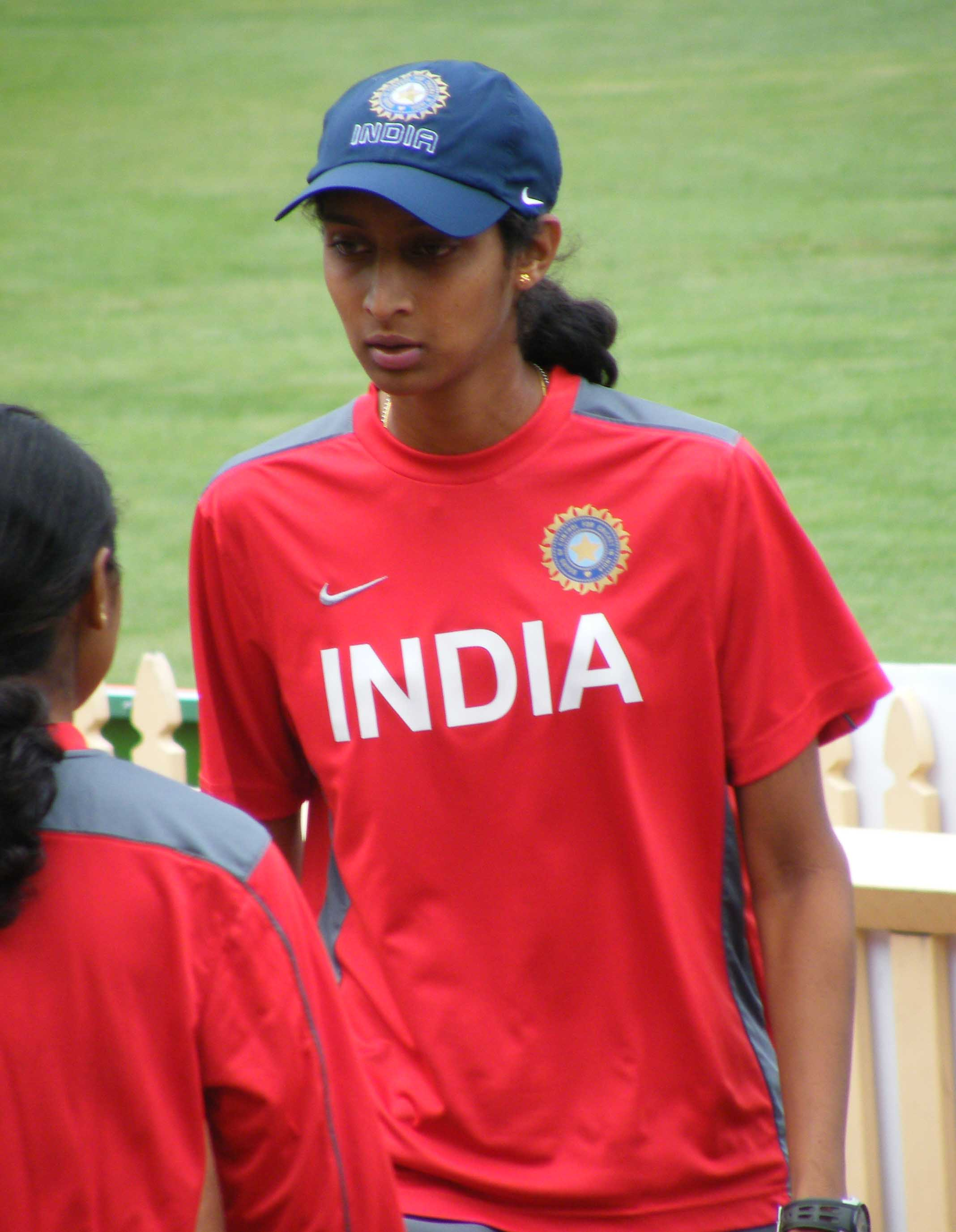 Snehal Pradhan of India - ICC Women's Cricket World Cup, Sydney, March 2009.